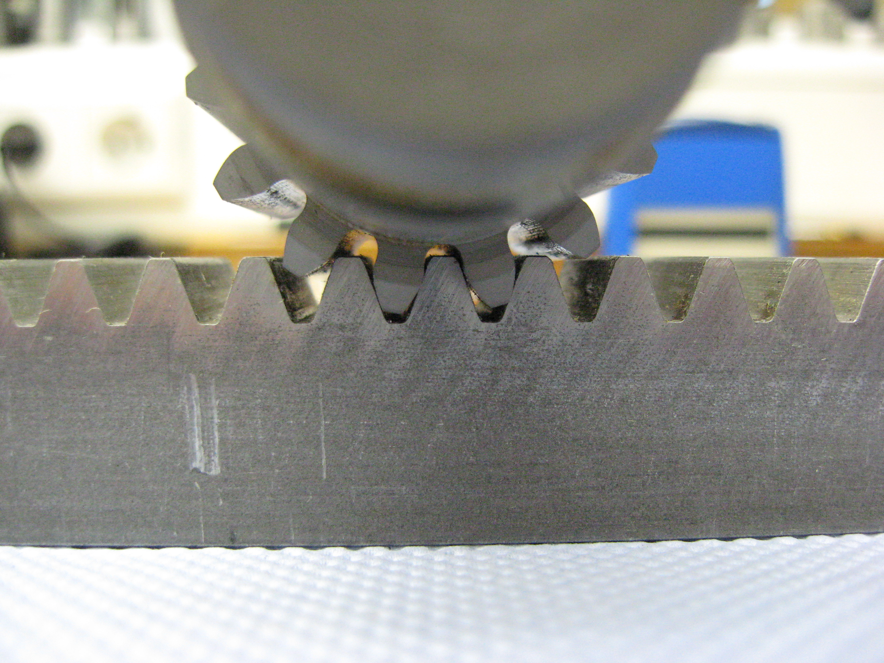 Pignon-Teeth paired with a Gear Rack